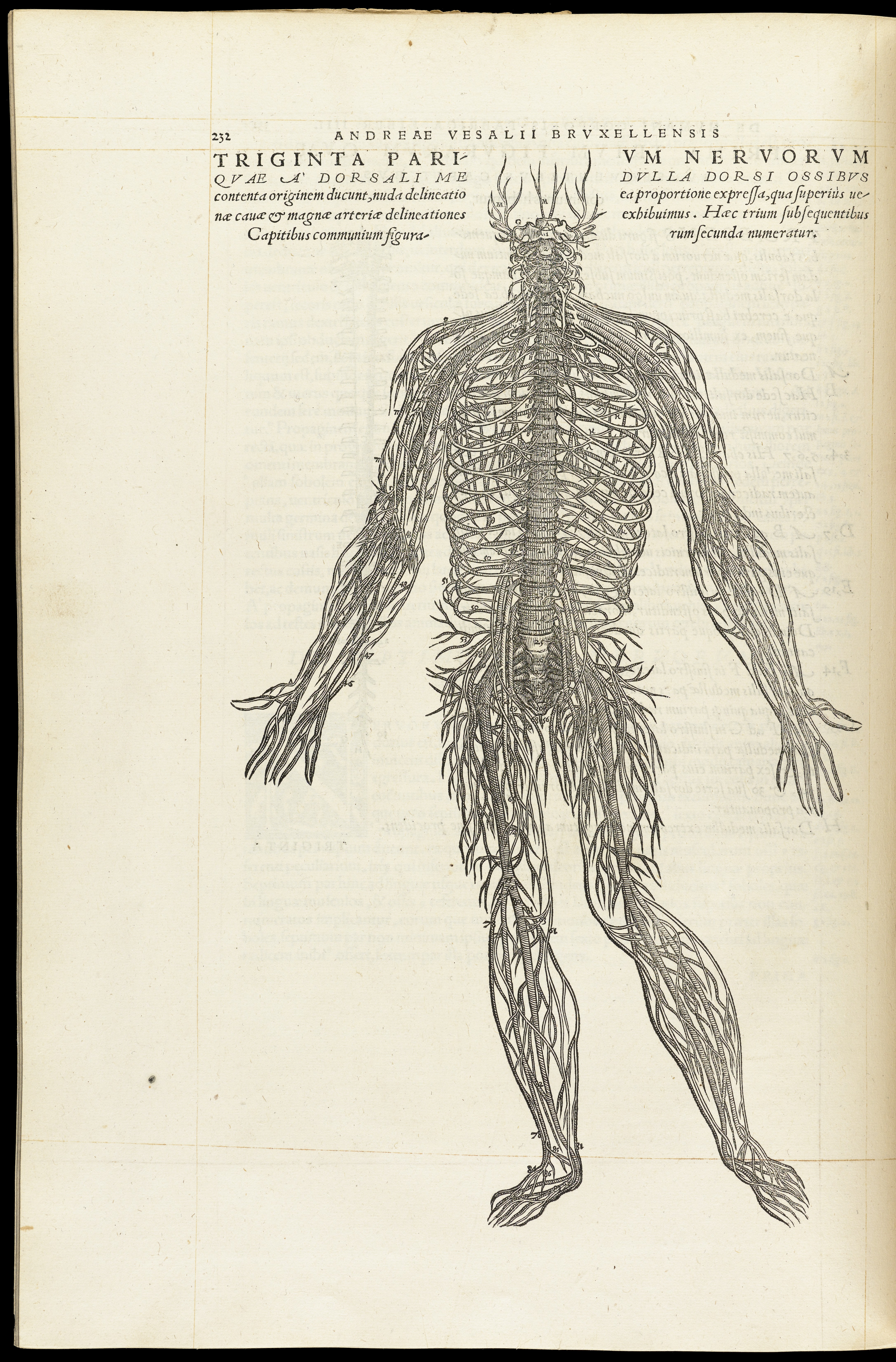 Andreae Vesalii Bruxellensis, scholae medicorum Patauinae professoris De humani corporis fabrica libri septem ... Rare Books Keywords: Anatomy